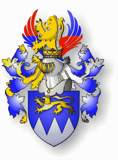 CoA of family Hajking (Heyking, Höcking)